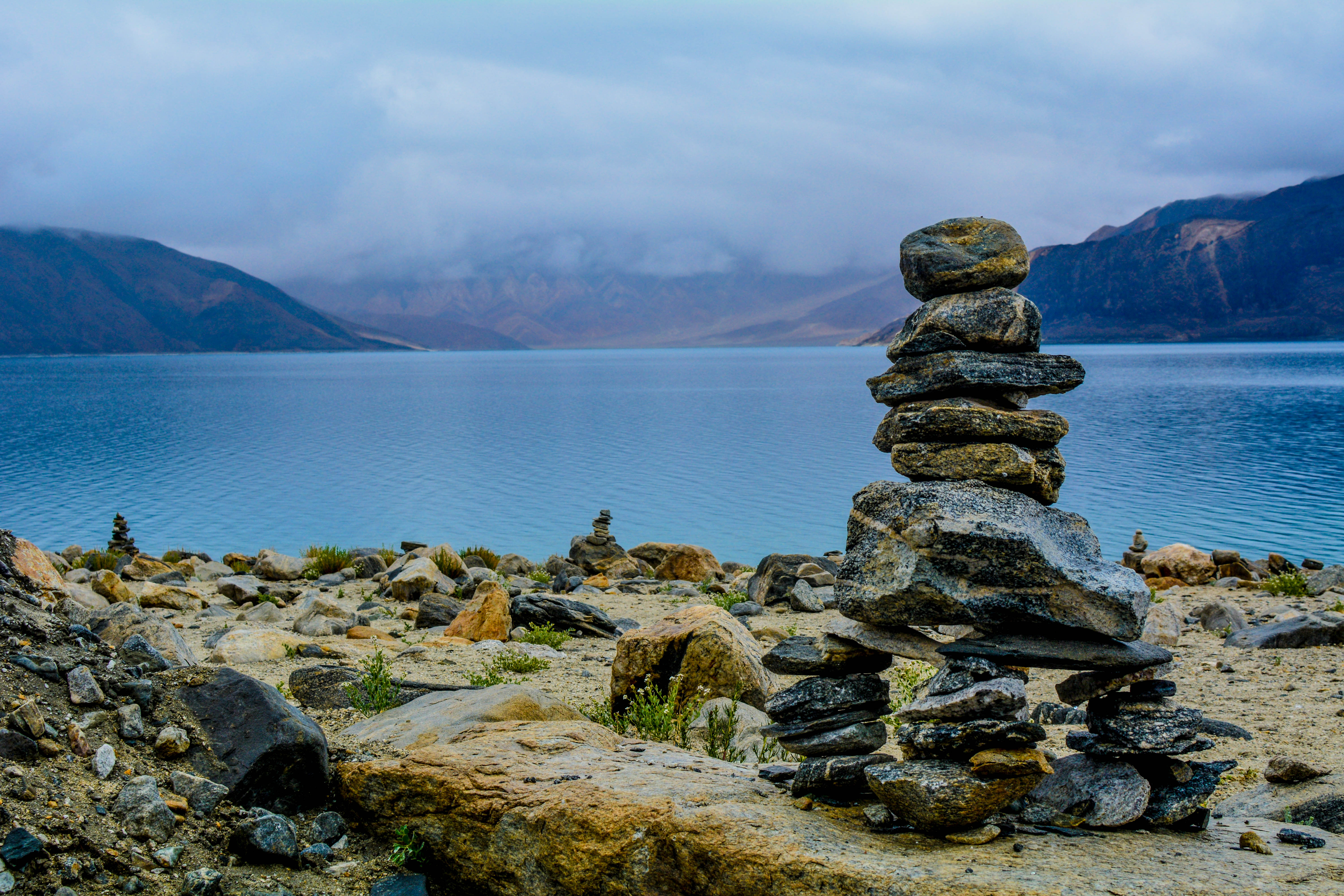 Pangong Tso during sunrise. The lake is set at 14,000 ft and changes colors throughout the day depending on the light. Aaron P Thomas